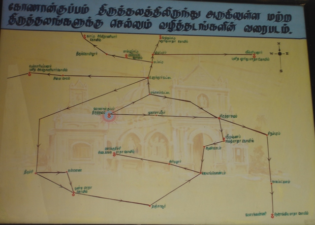 Near By shries from Konankuppam